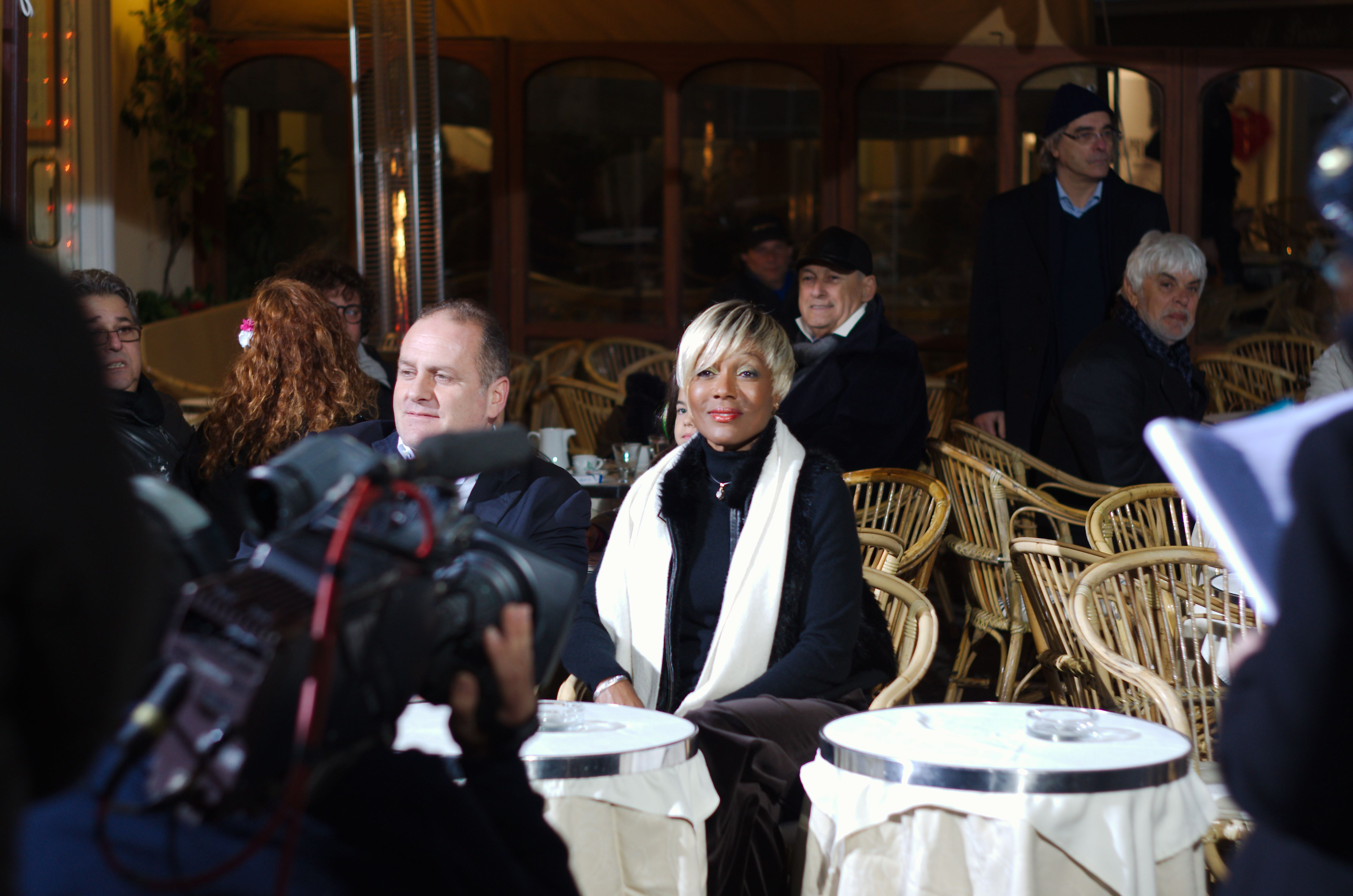 Amii Paulette Stewart